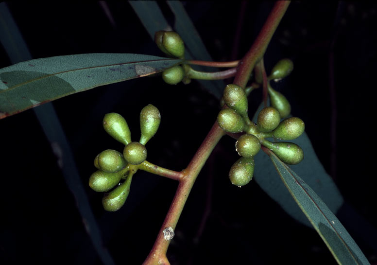 Flower buds of Eucalyptus laeliae, taken at Helena River Gorge, East Perth, Western Australia